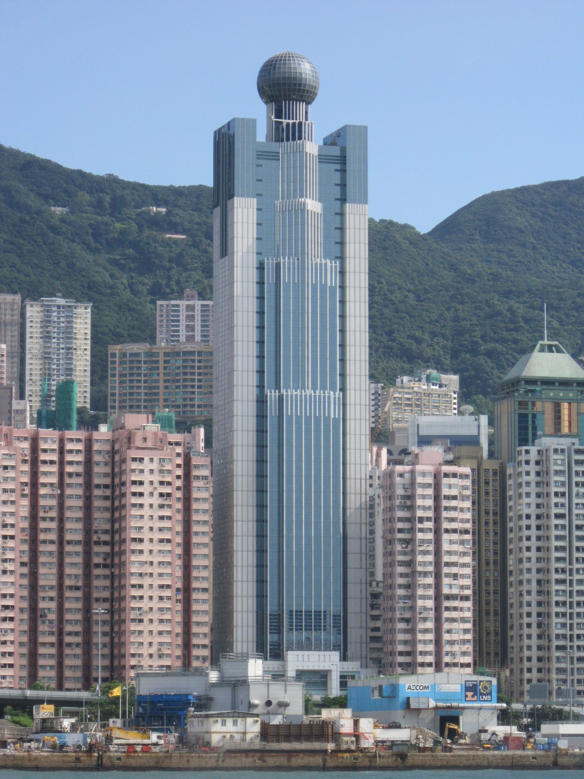 The Westpoint, used as LOCPG HK中文（香港）: 西港中心，用作中聯辦總部